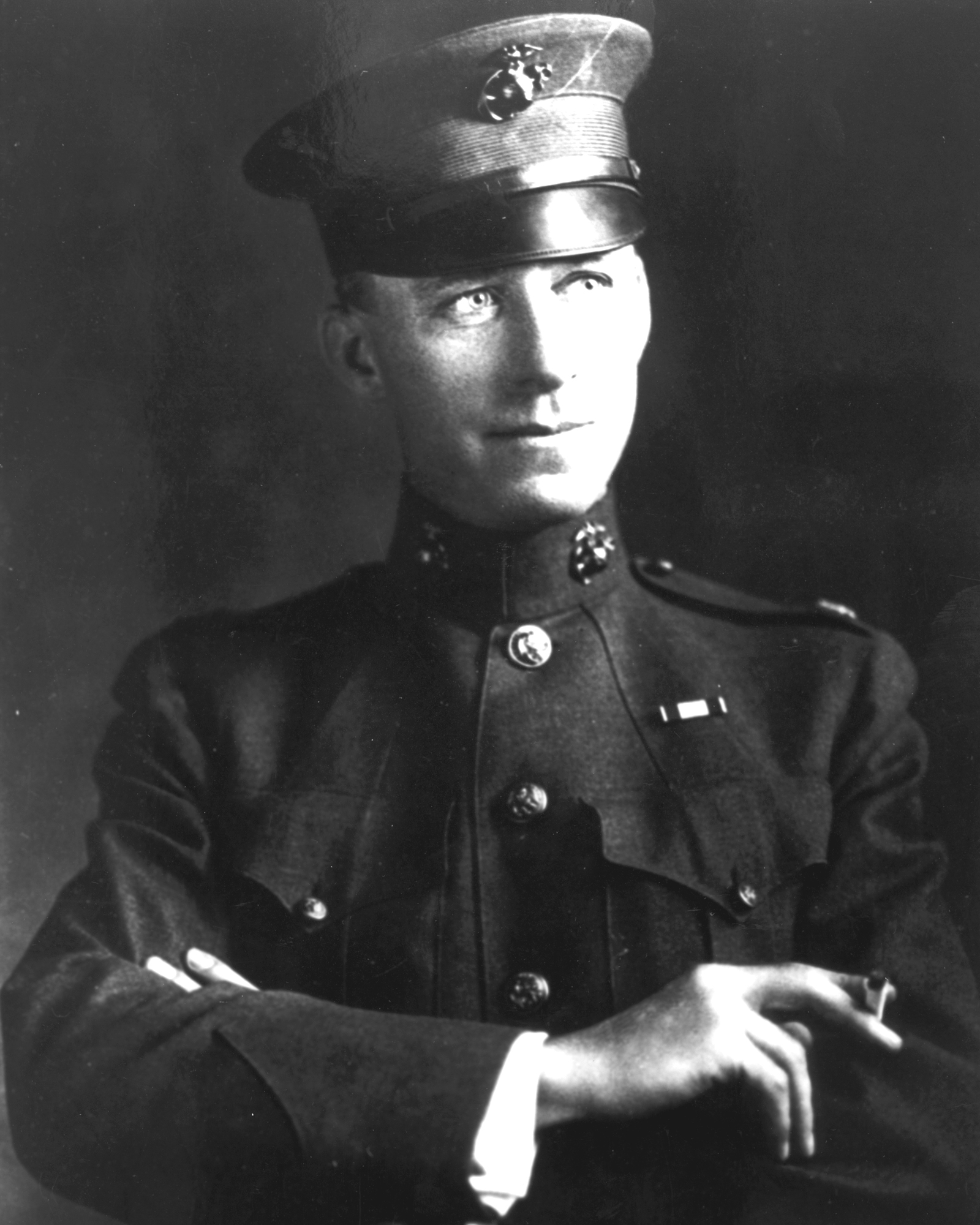 Earl H. Ellis, USMC